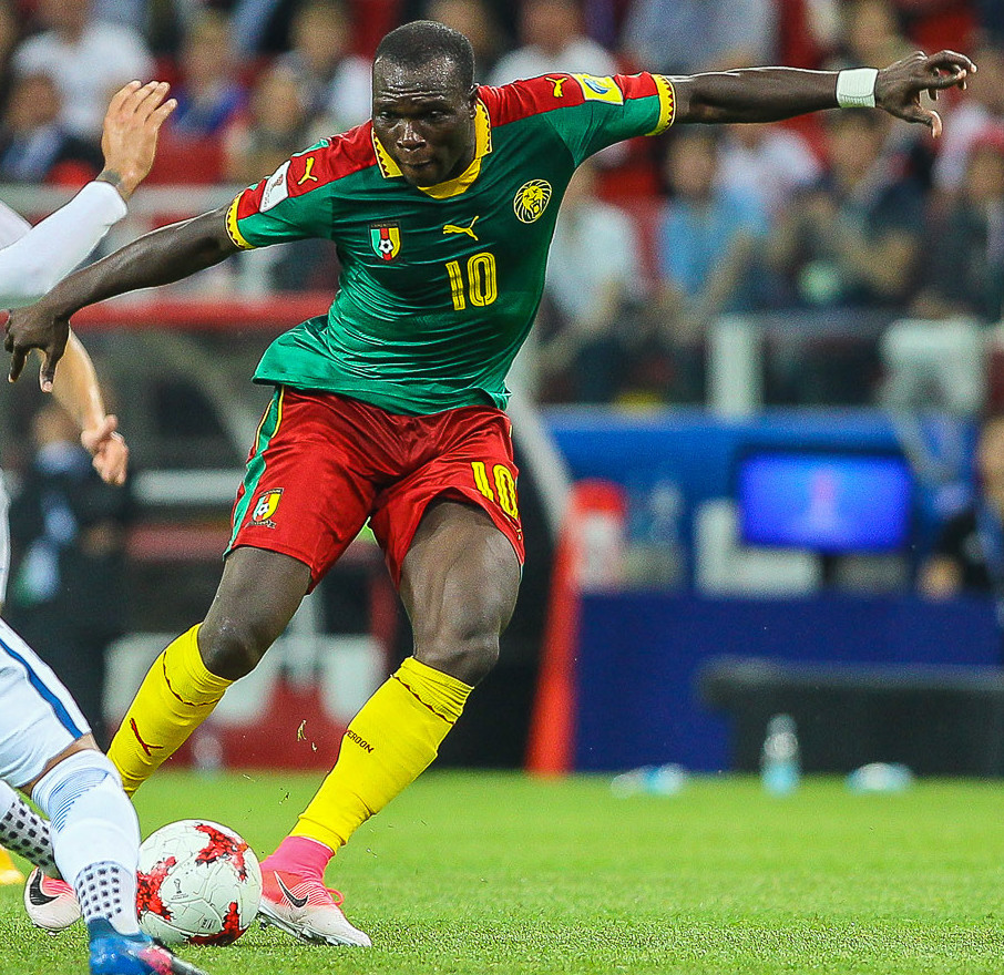 Cameroon vs Chile (0-2). FIFA Confederations Cup 2017